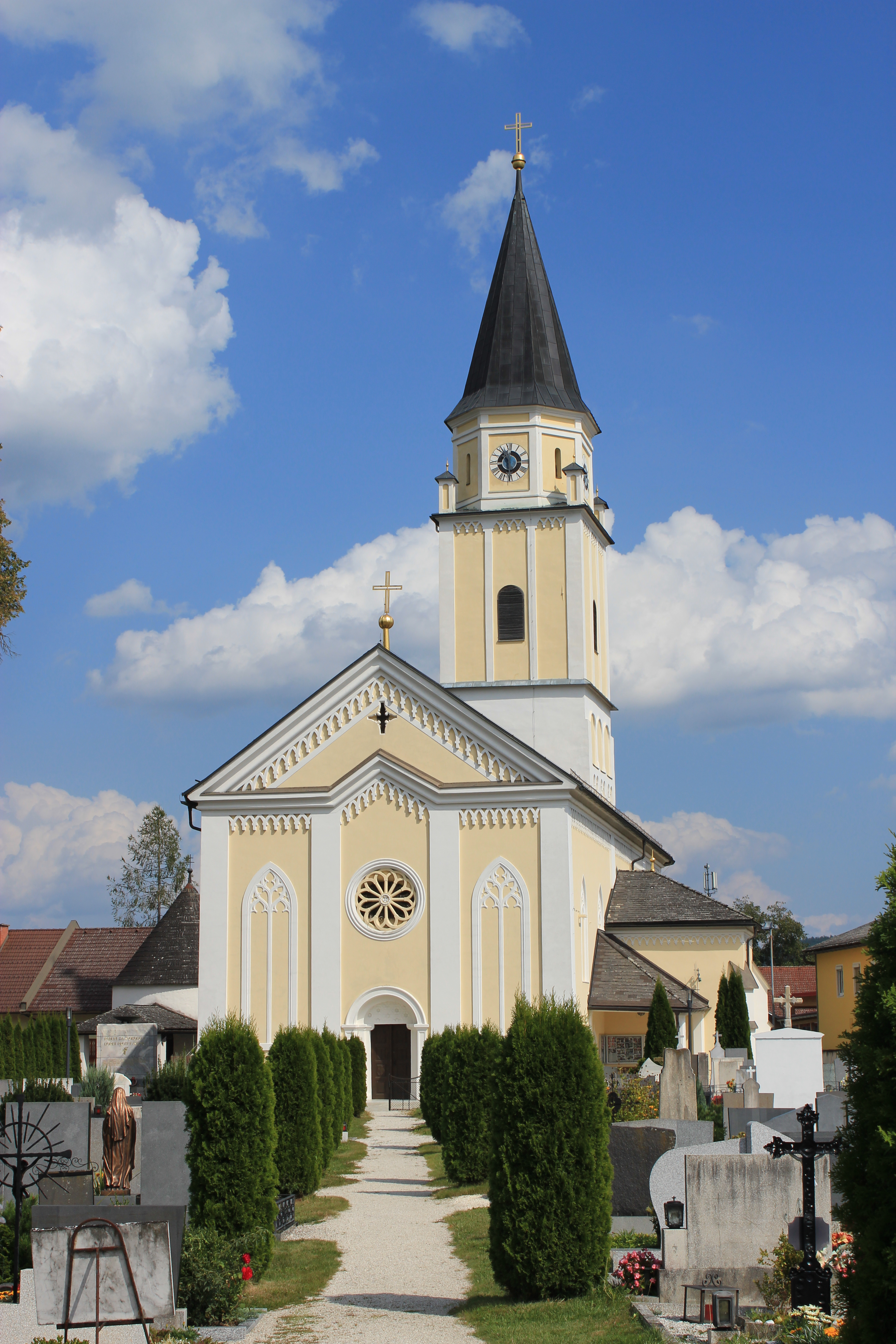 Parish-church St. Ruprecht in Völkermarkt